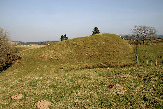 Castle earthworks at Castleton The only remains of the 12th century Liddel Castle are these impressive earthworks overlooking the Liddel Water.